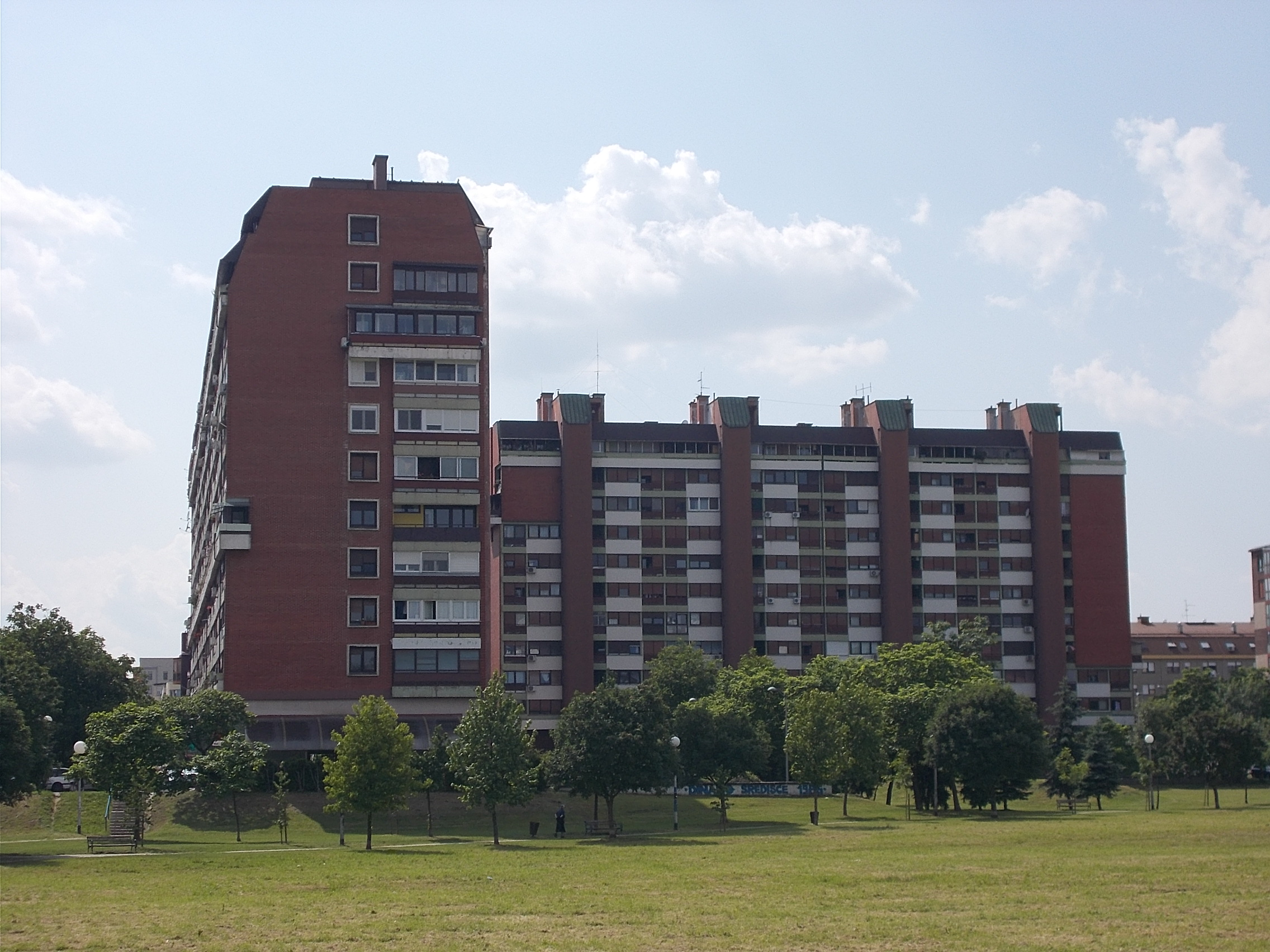 Residental buildings in Središće, Novi Zagreb.